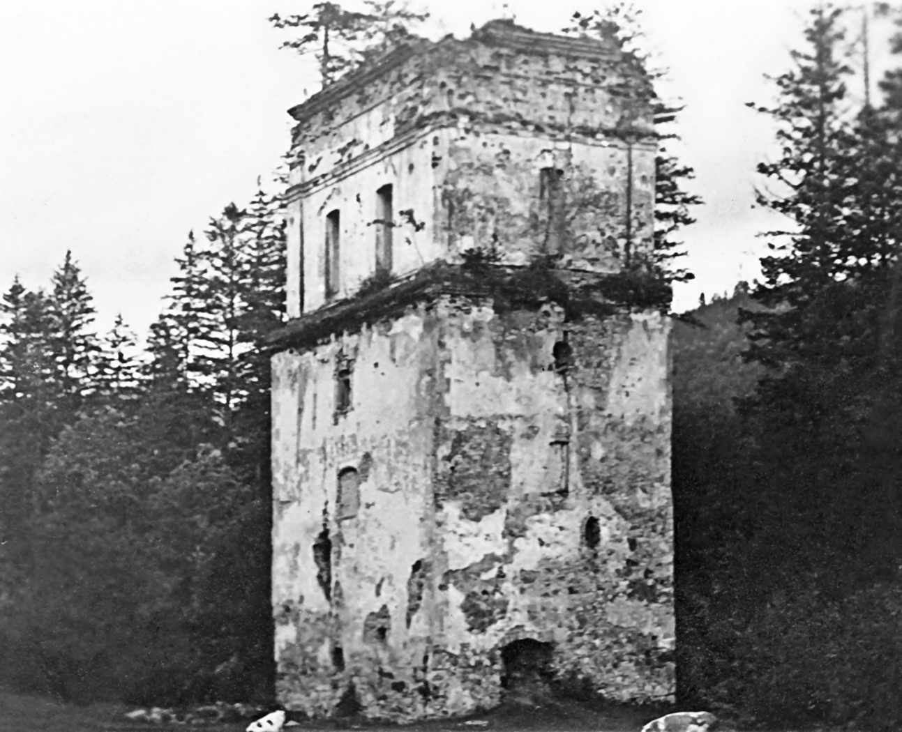 Maniawa, orthodox monastery, belfry, 1936 (?; before 1939)